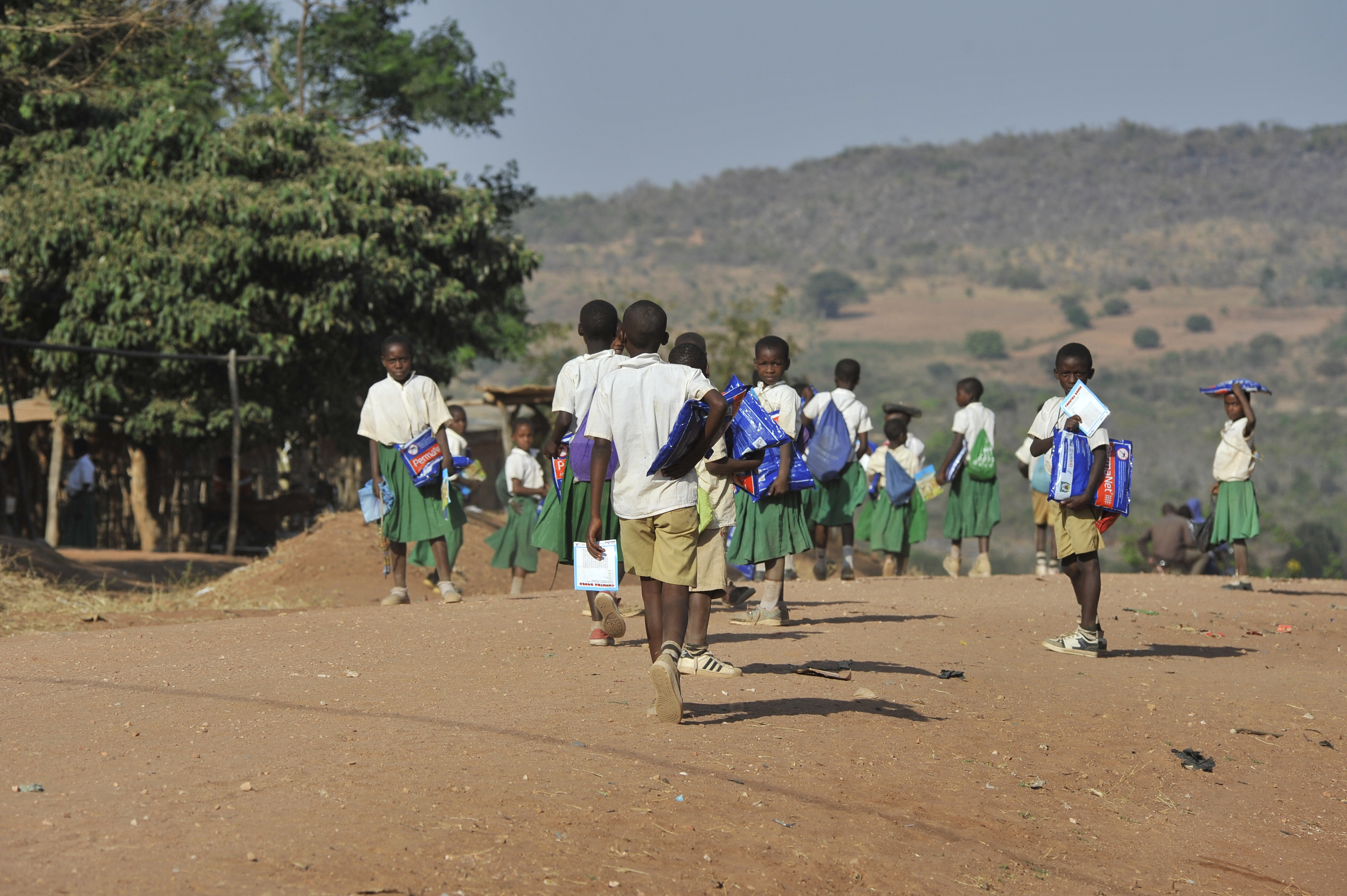 Children walk home from Ilemela Primary school with the mosquito nets they received. Credit: Riccardo Gangale/VectorWorks, Courtesy of Photoshare